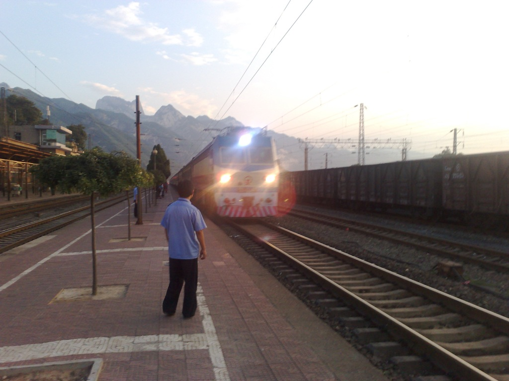 SS7D locomotive